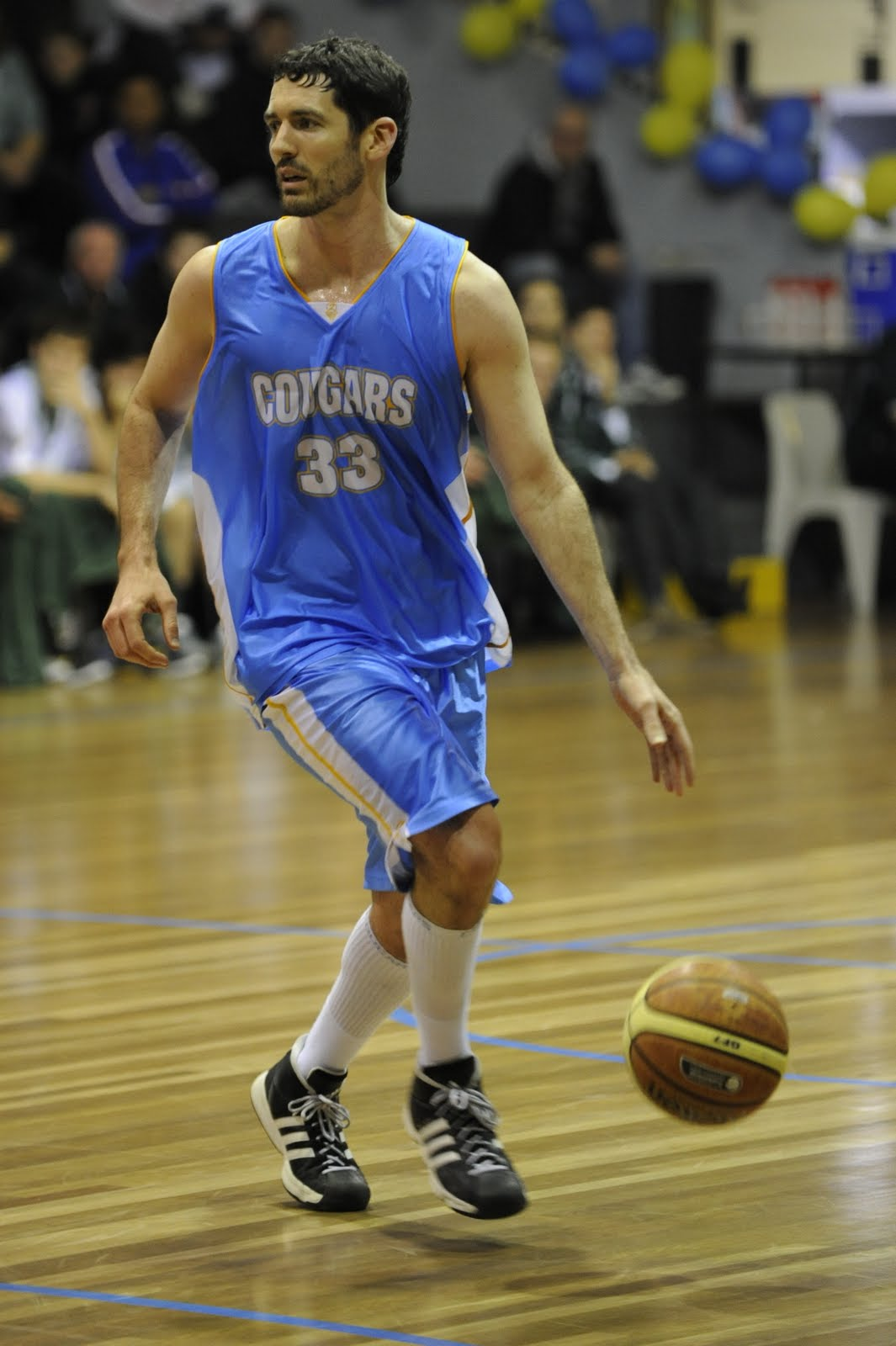 Ty Harrelson of the Cockburn Cougars, during the team's semi-final match-up against the Wanneroo Wolves